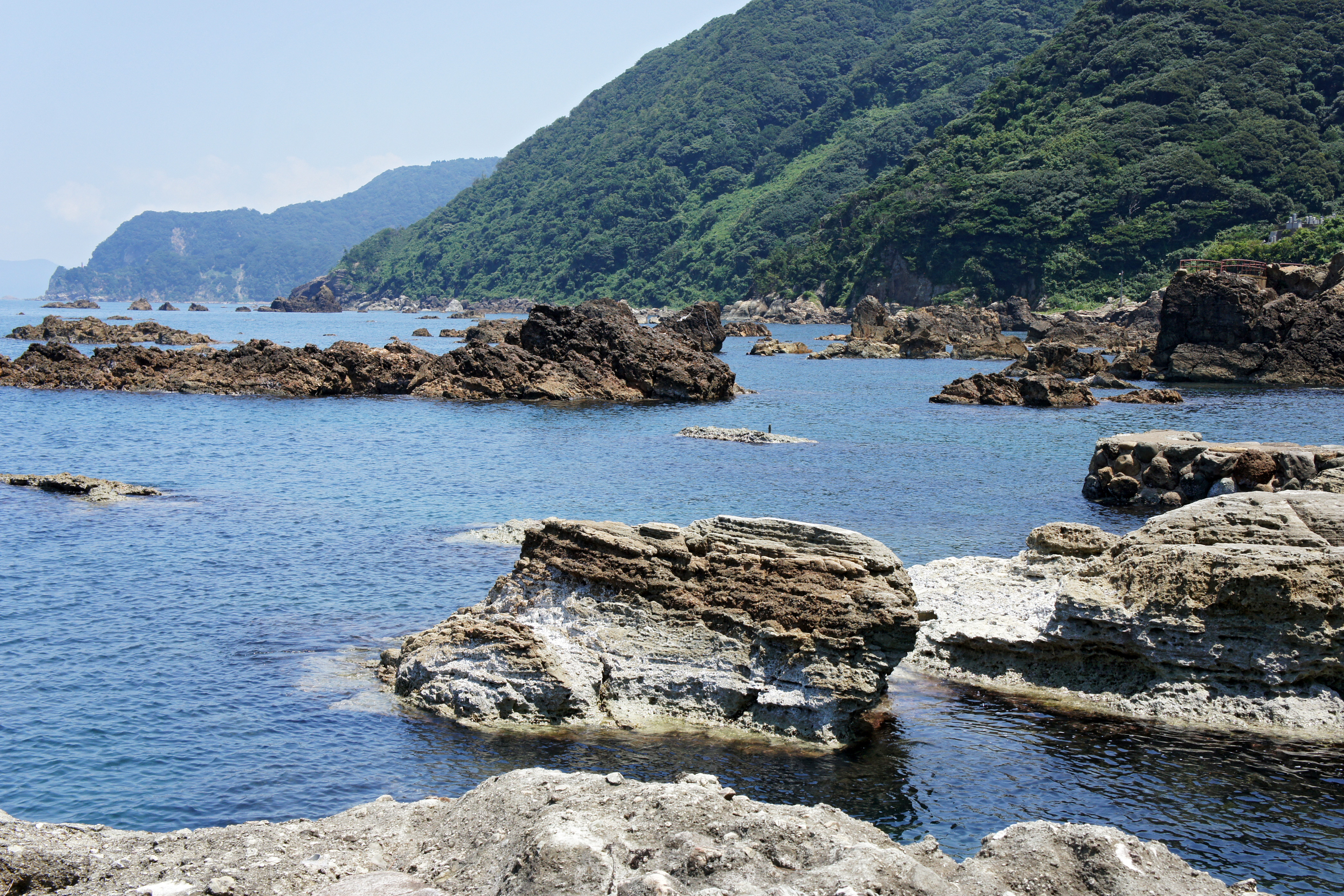 Hiyoriyama Coast in Toyooka, Hyogo prefecture, Japan.